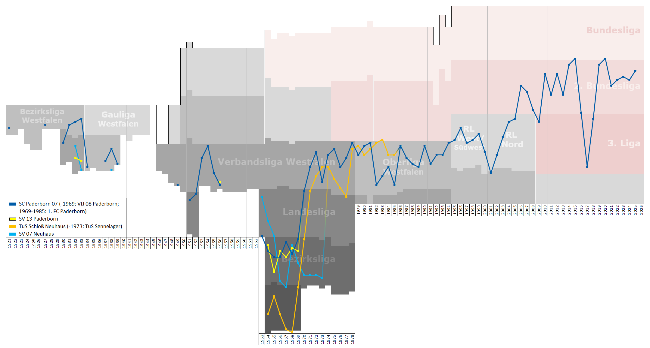 Chart of end-season table positions of SC Paderborn in the football league system of Germany. Data source: RSSSF, wikipedia, f-archiv.de, fussball.de